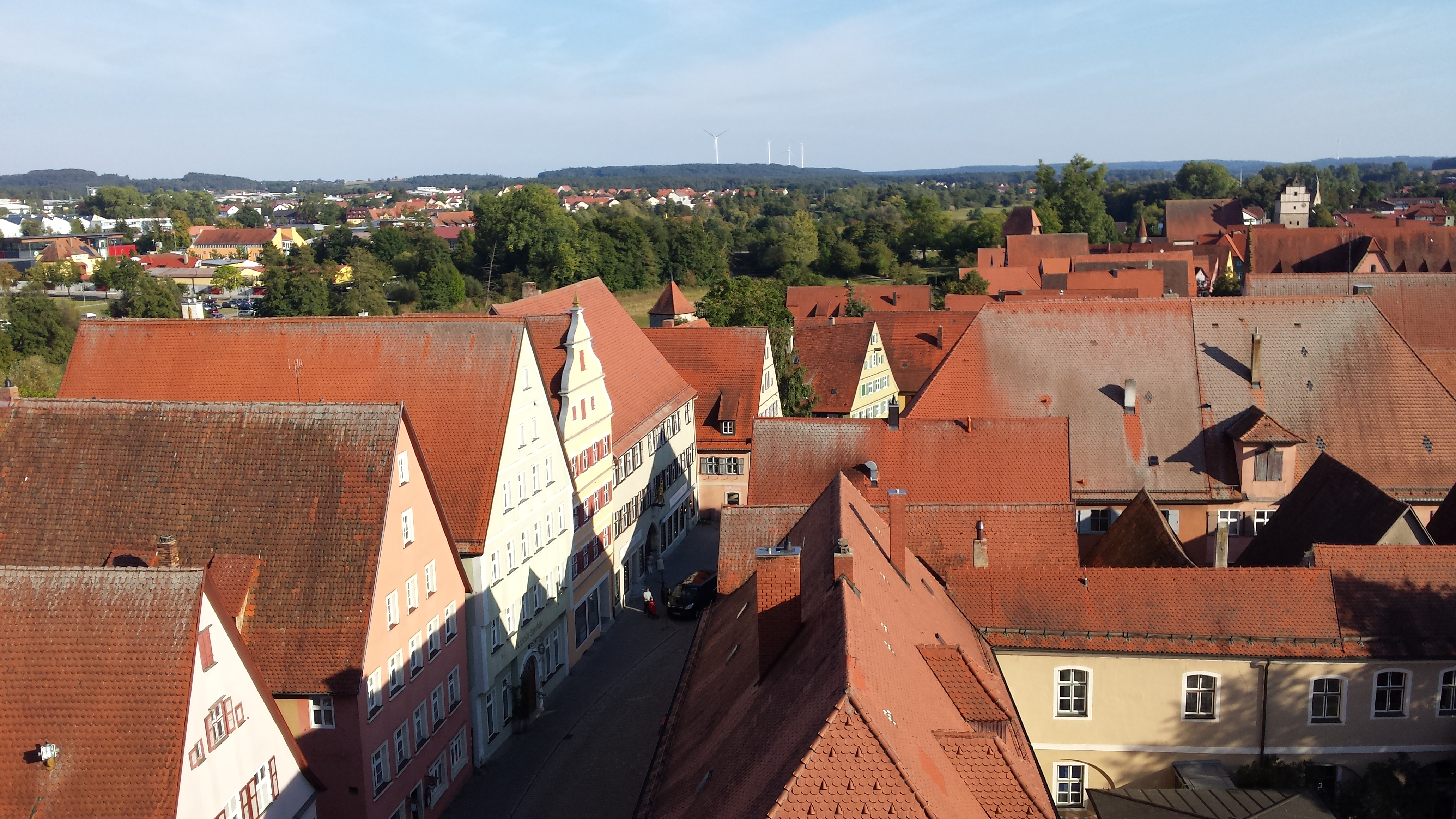 Romantic Road in Dinkelsbühl